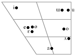 IPA vowel chart for Korean short vowels.